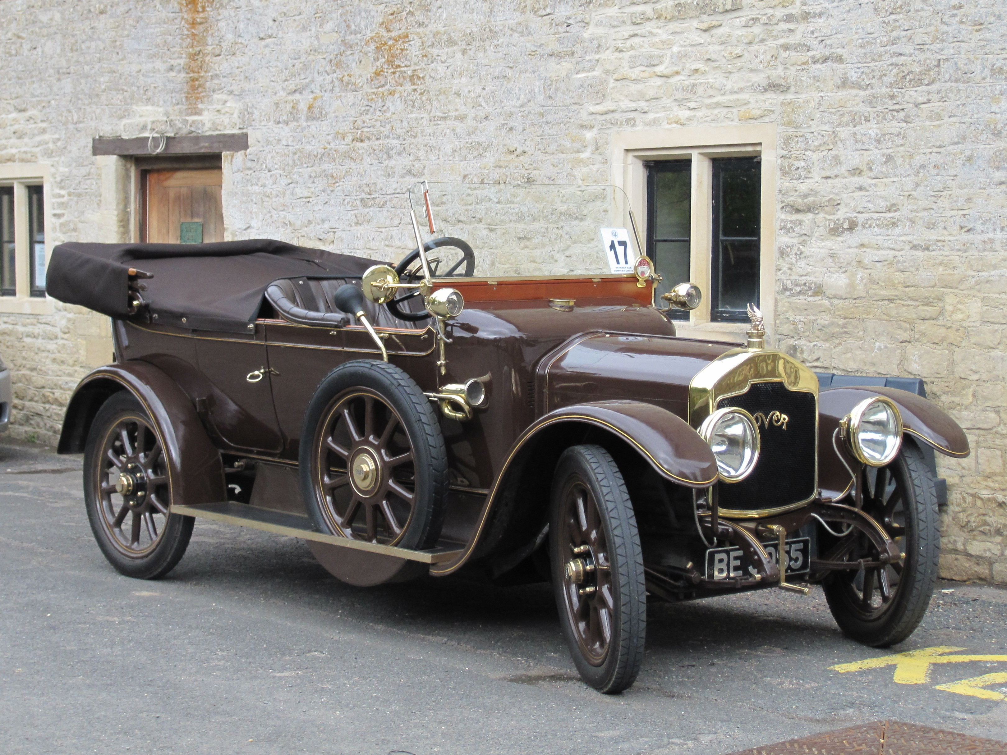 1914 Rover 12 tourer (DVLA) first registered 31 December 1914, 2297 cc VCC Cotswold caper